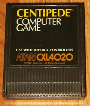 Cartridge with Centipede, computer game for Atari 8 bit computers. Model CXL4020. Photo by the uploader.